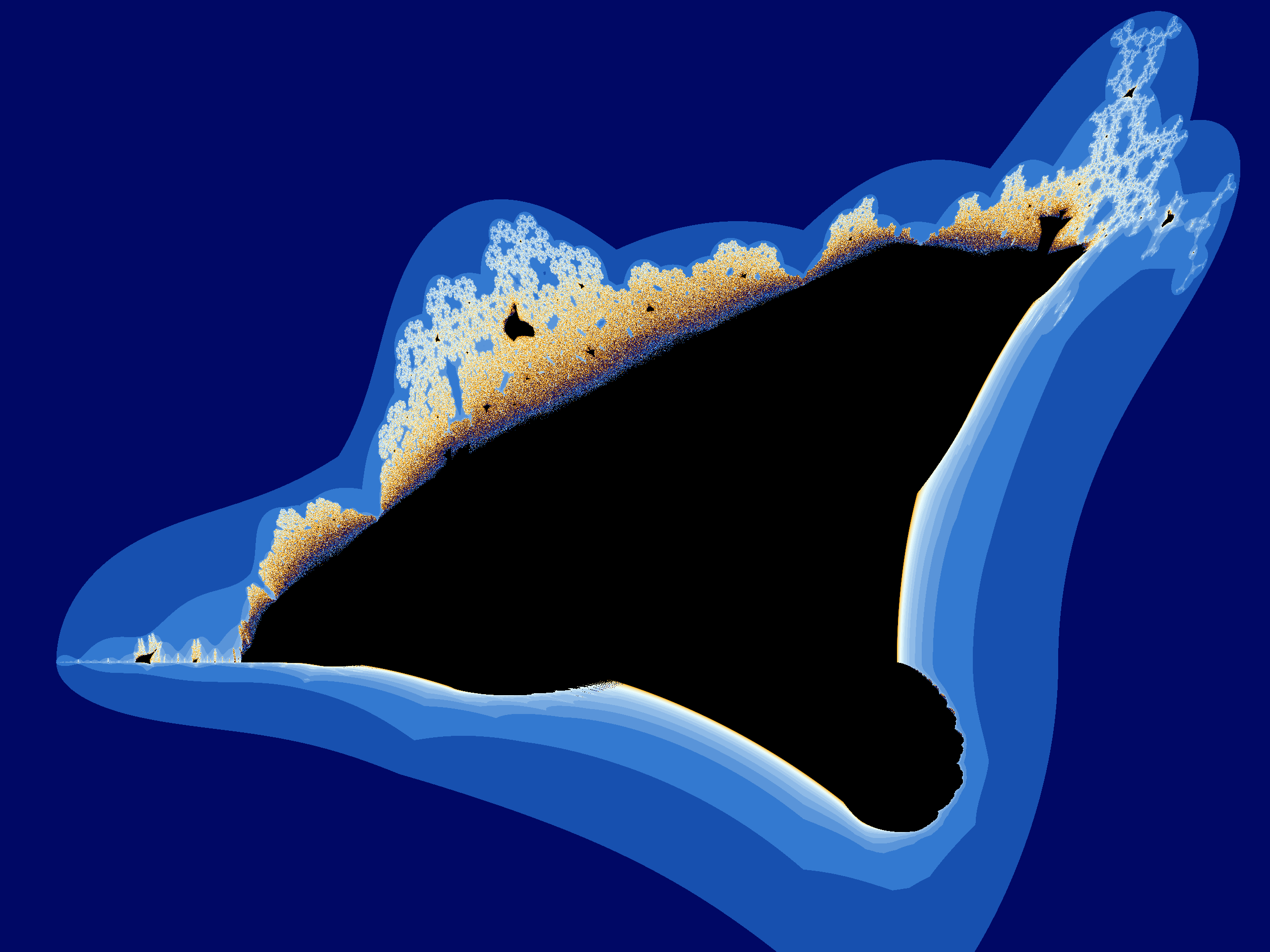 PNG version of .